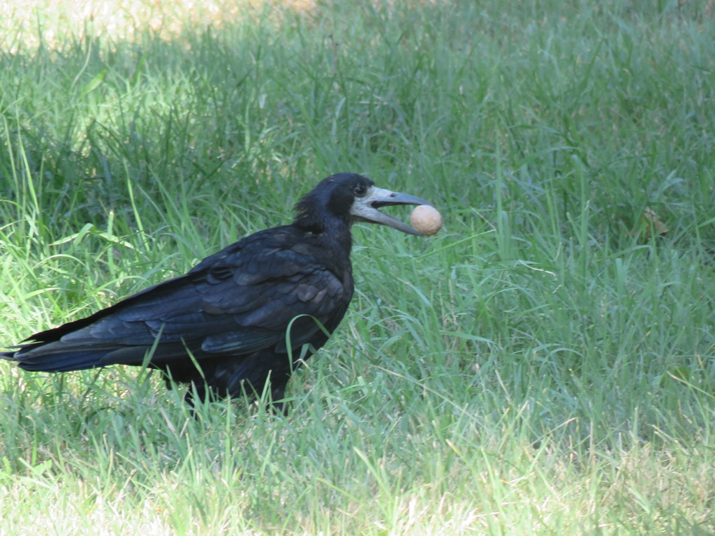 Rook in the park, carrying food.